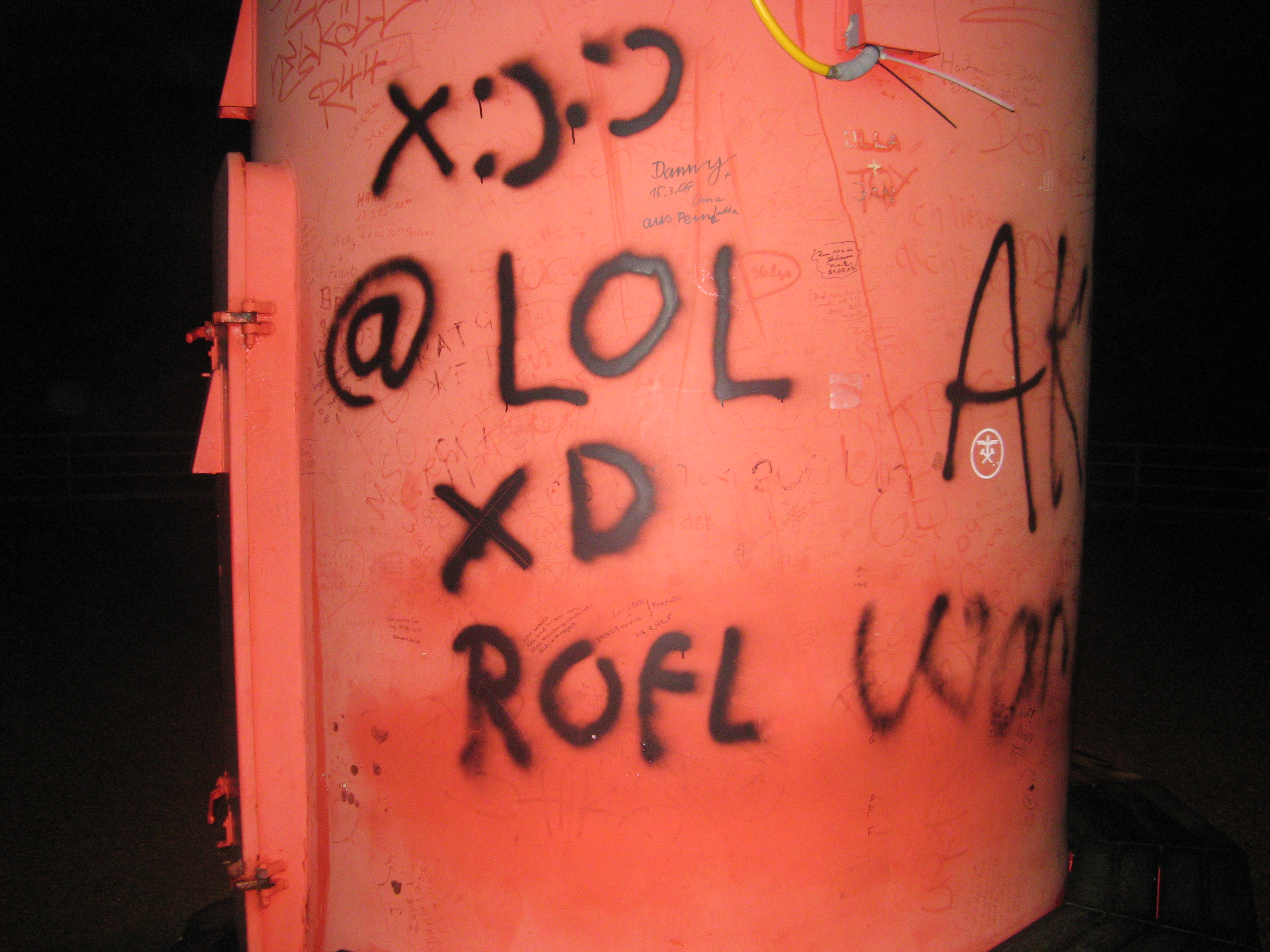 Netspeak inspired graffiti (smilie :), @, lol, rofl) on a small lighthouse (Molenfeuer) in Büsum, German North sea coast